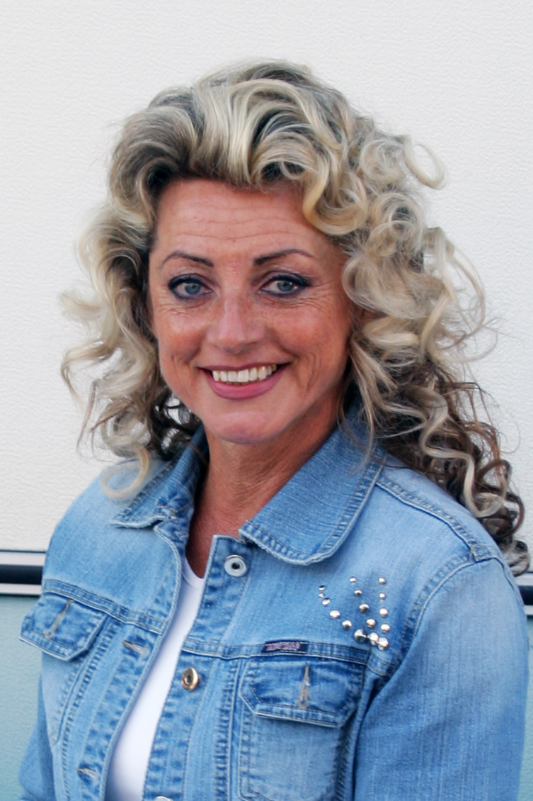 Kike Elomaa in Vihreät Niityt music festival in the summer 2006.